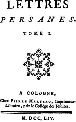 Frontispiece of a 1754 contraband edition of Montesquieu's Persian Letters